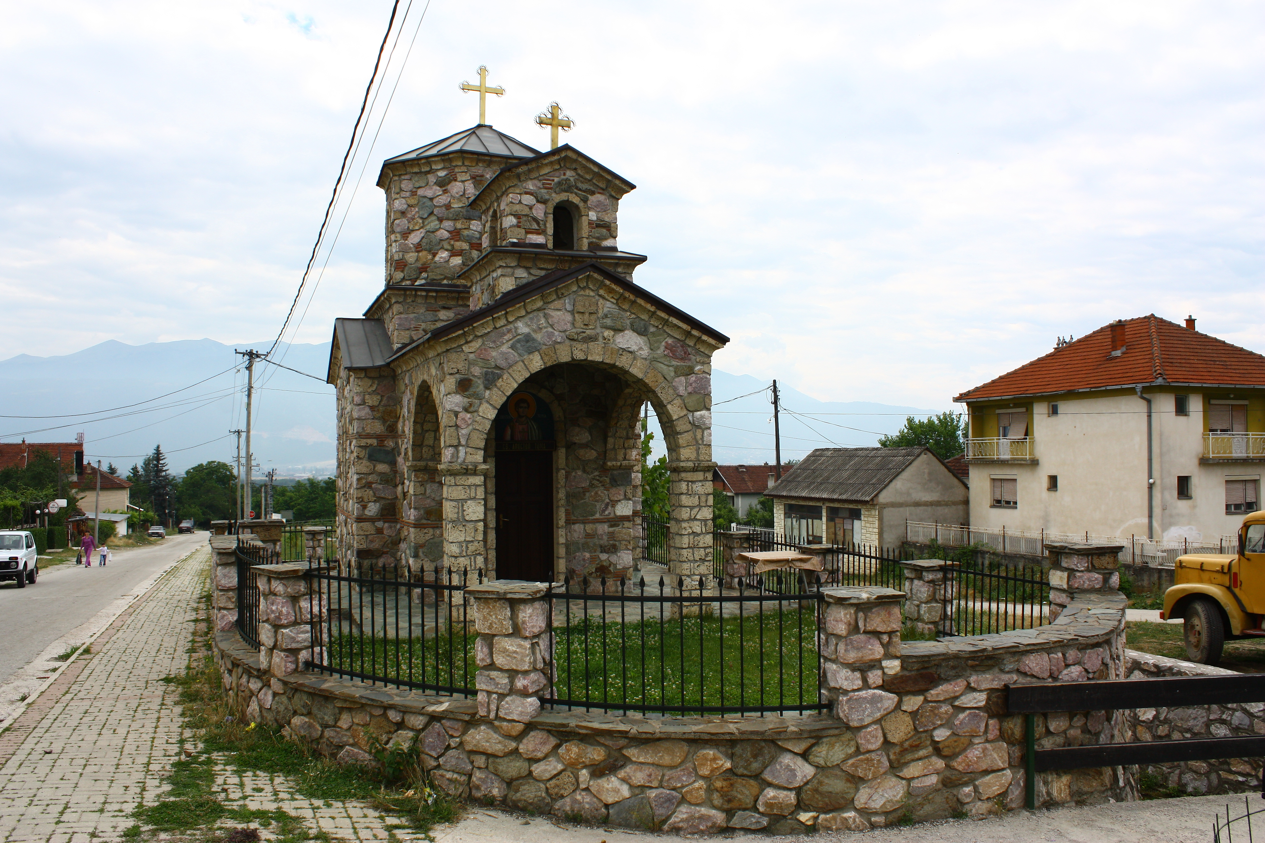 St. Thomas Church in Zubovce, Macedonia